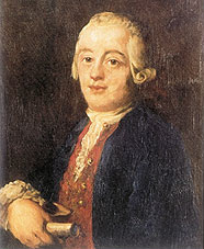 Johann Gottfried Brügelmann (1750—1802), founder of the world's first factory outside of England